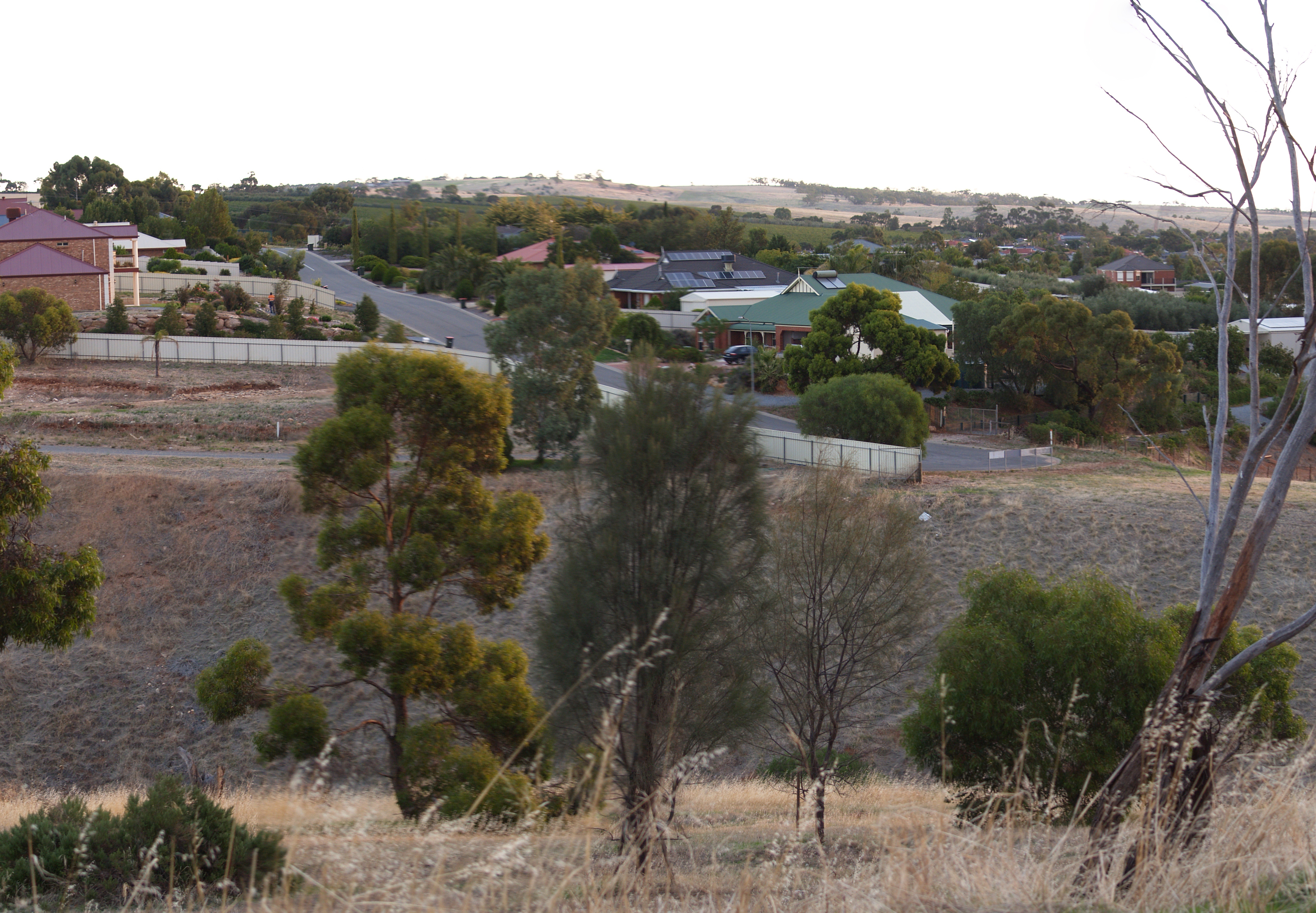 Panorama of Craigmore, South Australia